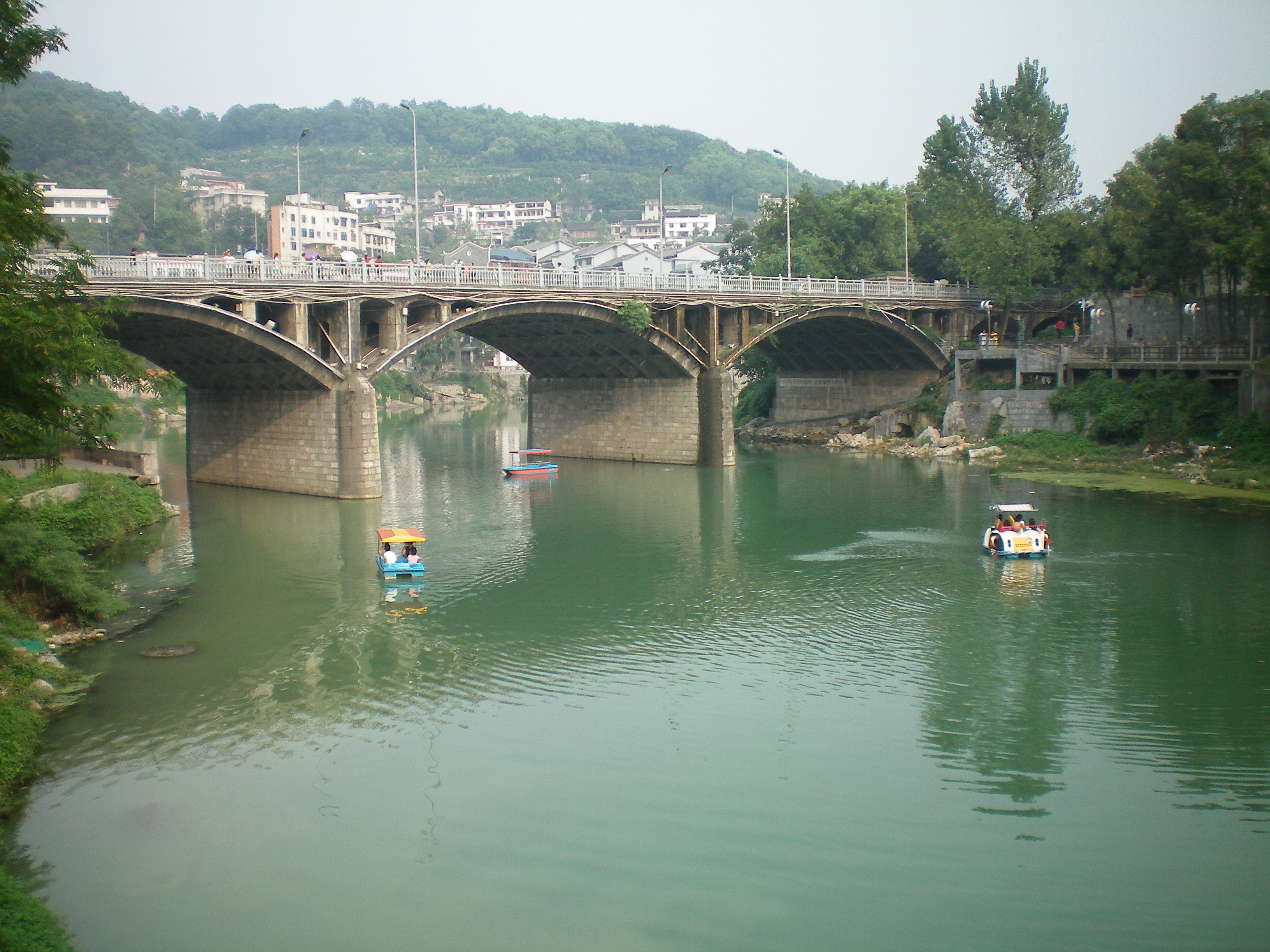 Picture of Dong River in Jishou (Hunan，China)